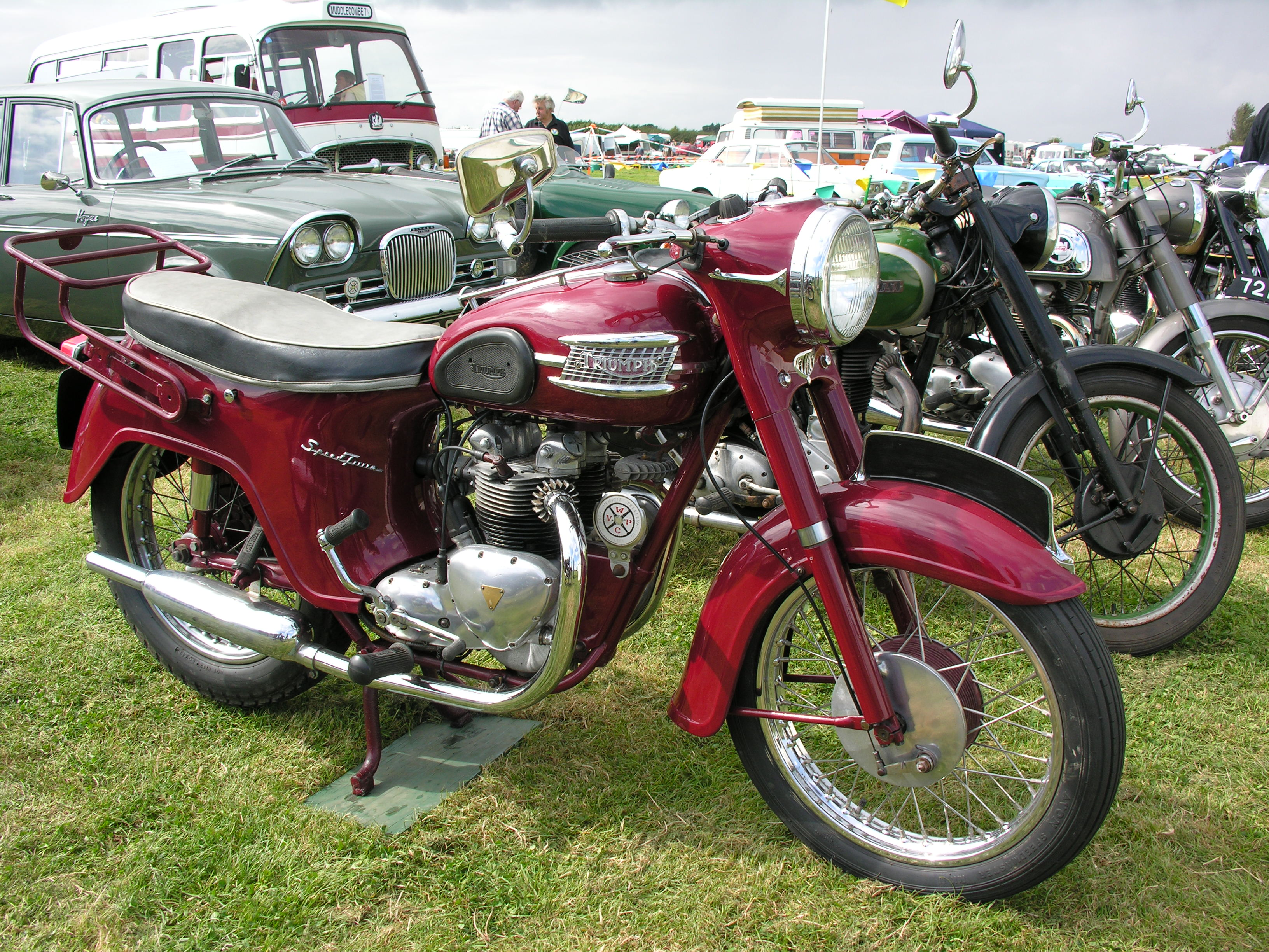 Triumph Speed Twin at Dorset Show 2009